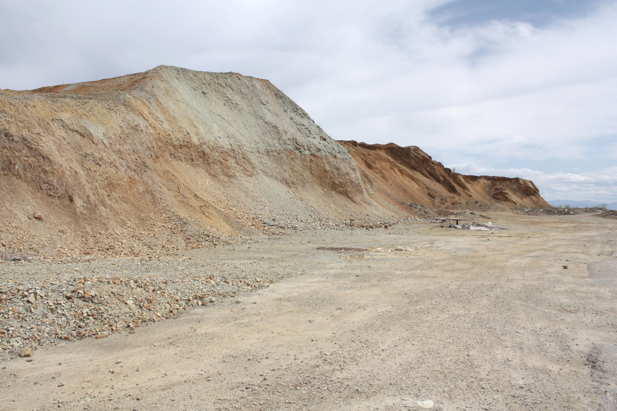 Tailings from the closed copper mine Elshitsa, Bulgaria